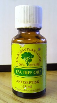 Swedish Tea Tree Oil bottle